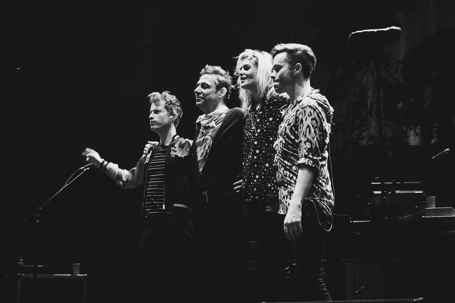 The Kills